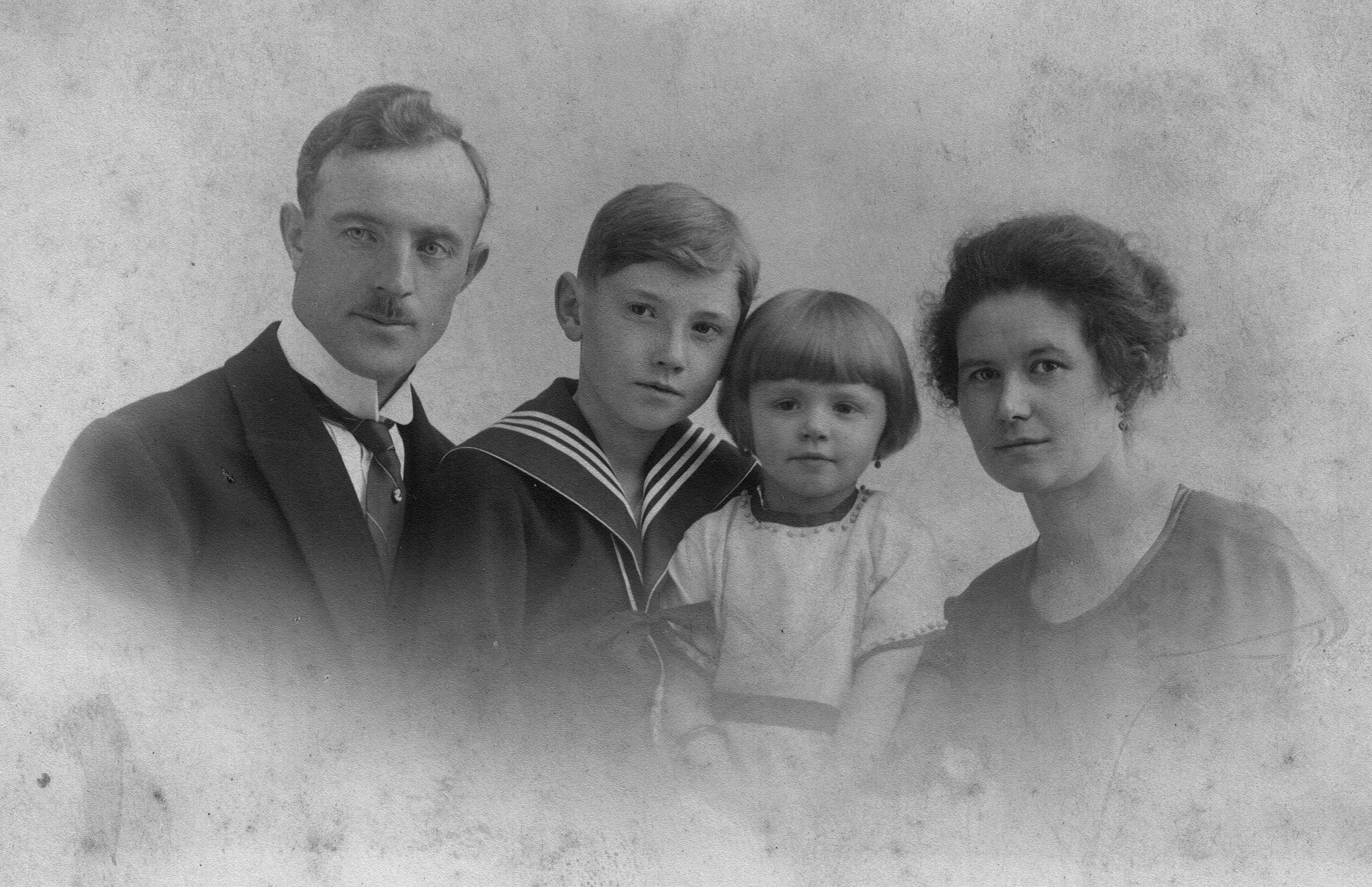 1925 Vinditianus Hillewaert-Elvira Coessens with Henri & Georgette